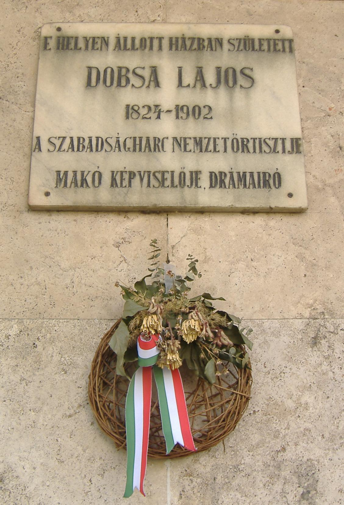 Memorial tablet of Lajos Dobsa, playwright and revolutionary in Makó, Hungary.